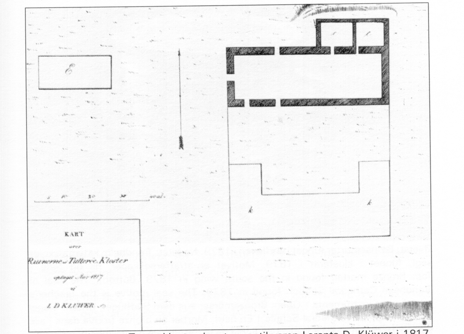 Building footprint of Tautra Abbey, Norway